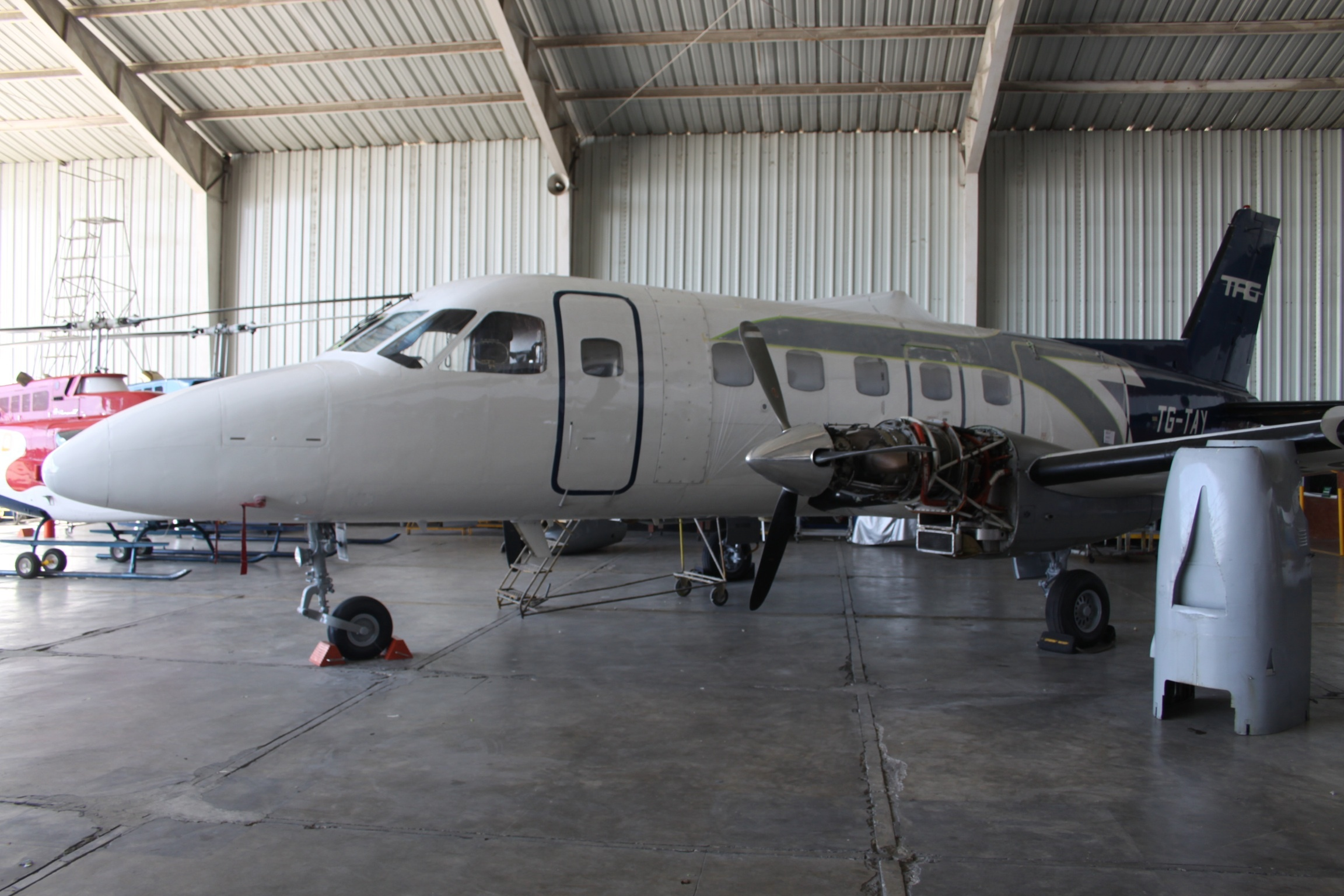 At Guatemala La Aurora International